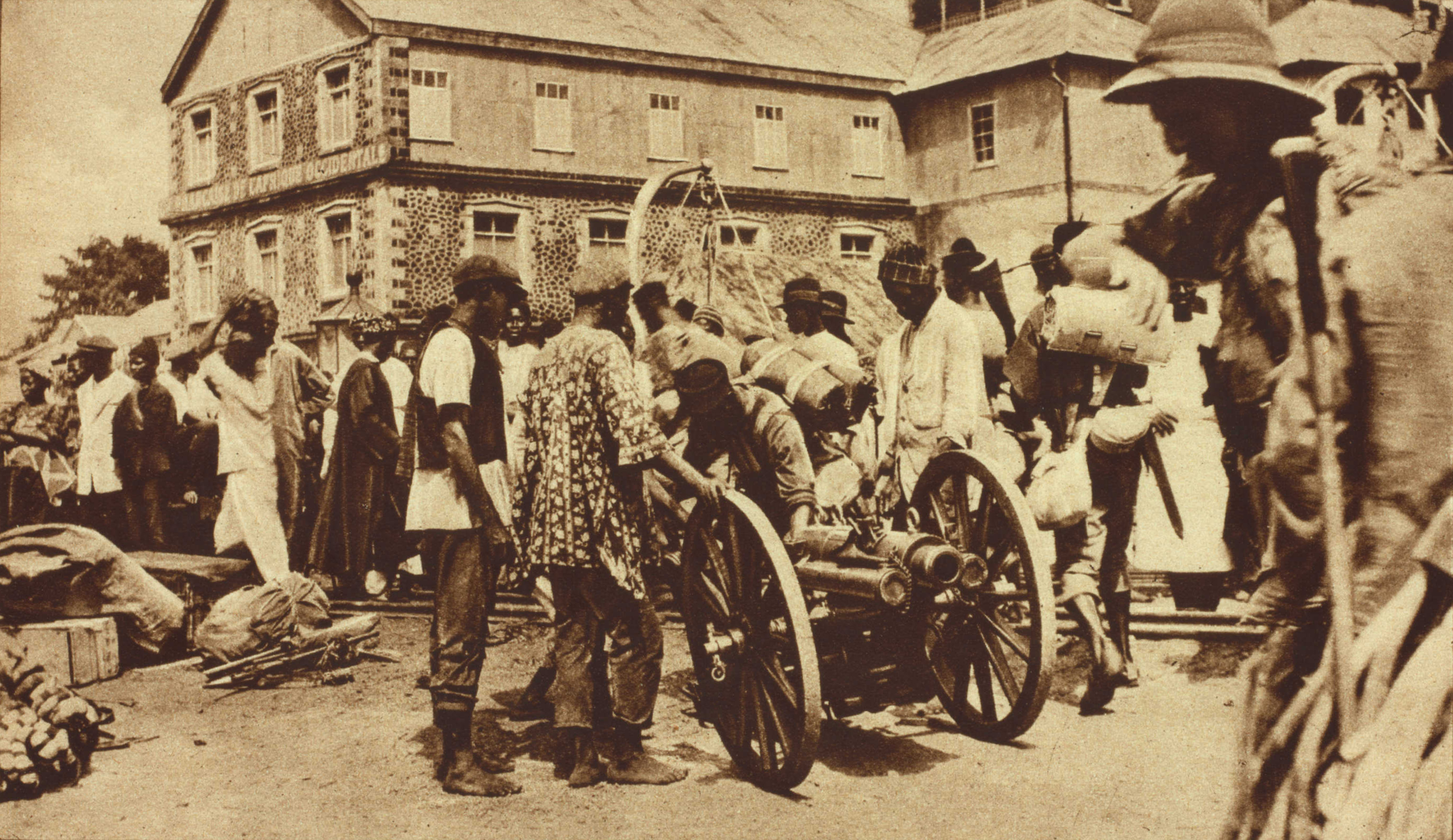 Photograph published on Page 378 of 'The War of the Nations : portfolio in Rotogravure Etchings : compiled from the Mid-week pictorial, (New York), December 31, 1919. Original caption: "BRITISH EXPEDITIONARY FORCE PREPARING TO EMBARK AT FREETOWN TO ATTACK THE GERMAN CAMEROONS, THE MAIN OBJECT OF THE ATTACK BEING THE PORT OF DUALA. AUXILIARY NATIVE TROOPS WERE FREELY USED IN AFRICAN WARFARE." Comments : The gun is a QF 2.95 inch Mountain Gun of the Sierra Leone Battery, manned by African gunners.